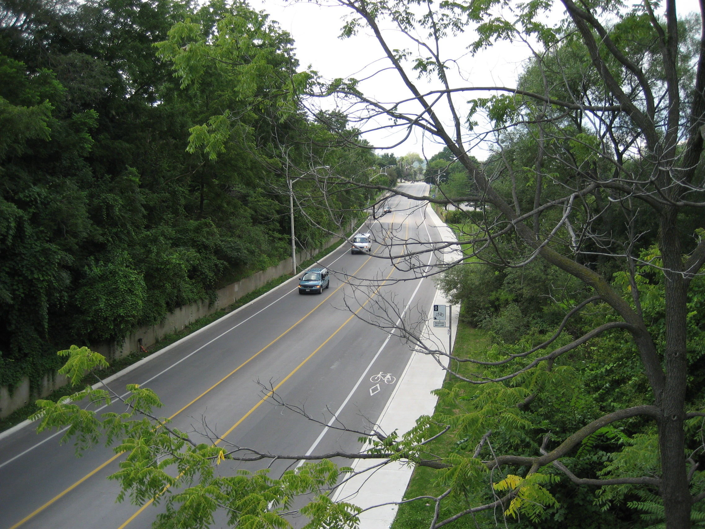 Parkdale Avenue South bridge, overpassing Lawrence Road below, Hamilton, Canada.